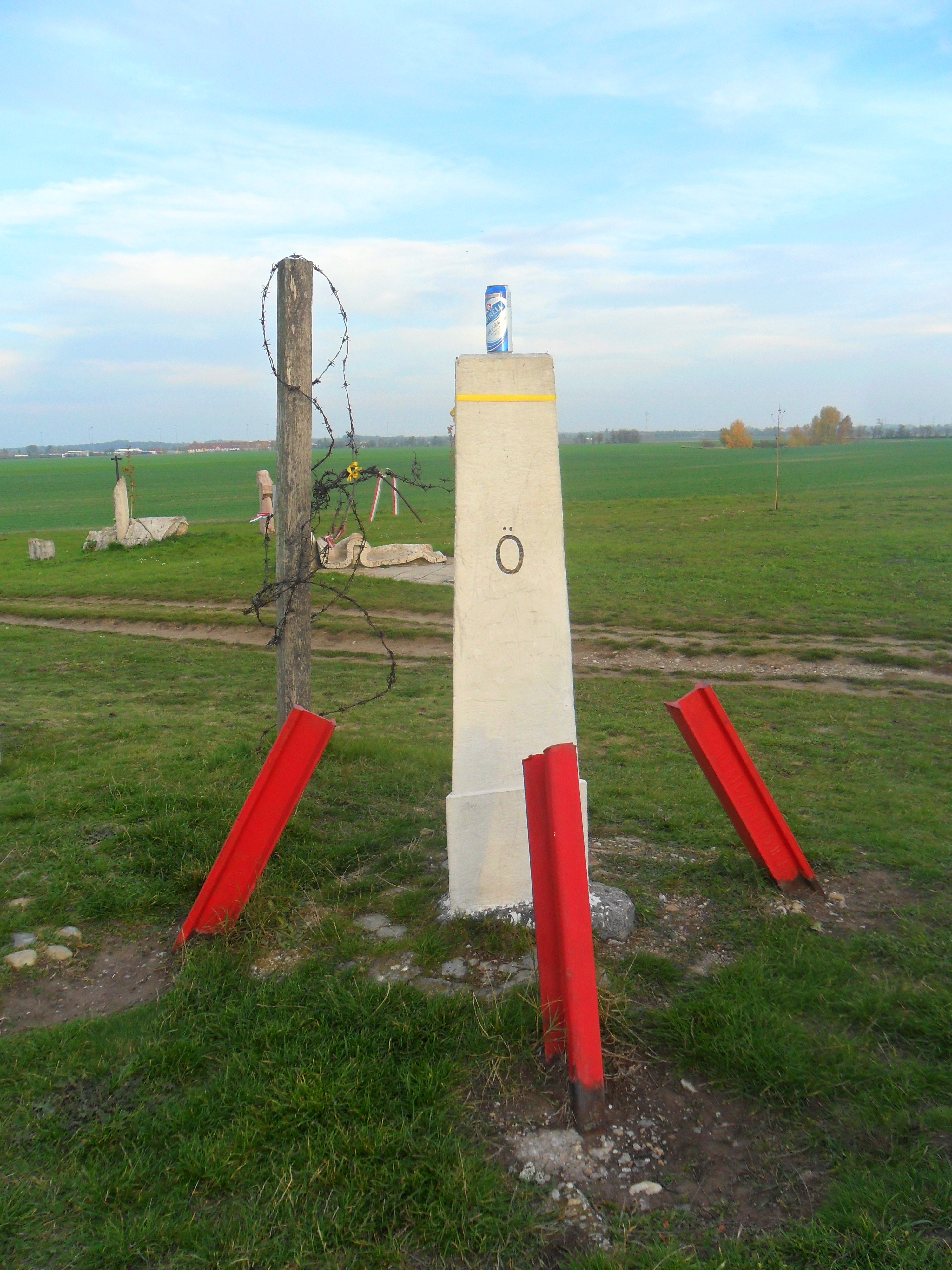 Austrian-Slovakian-Hungarian tripoint